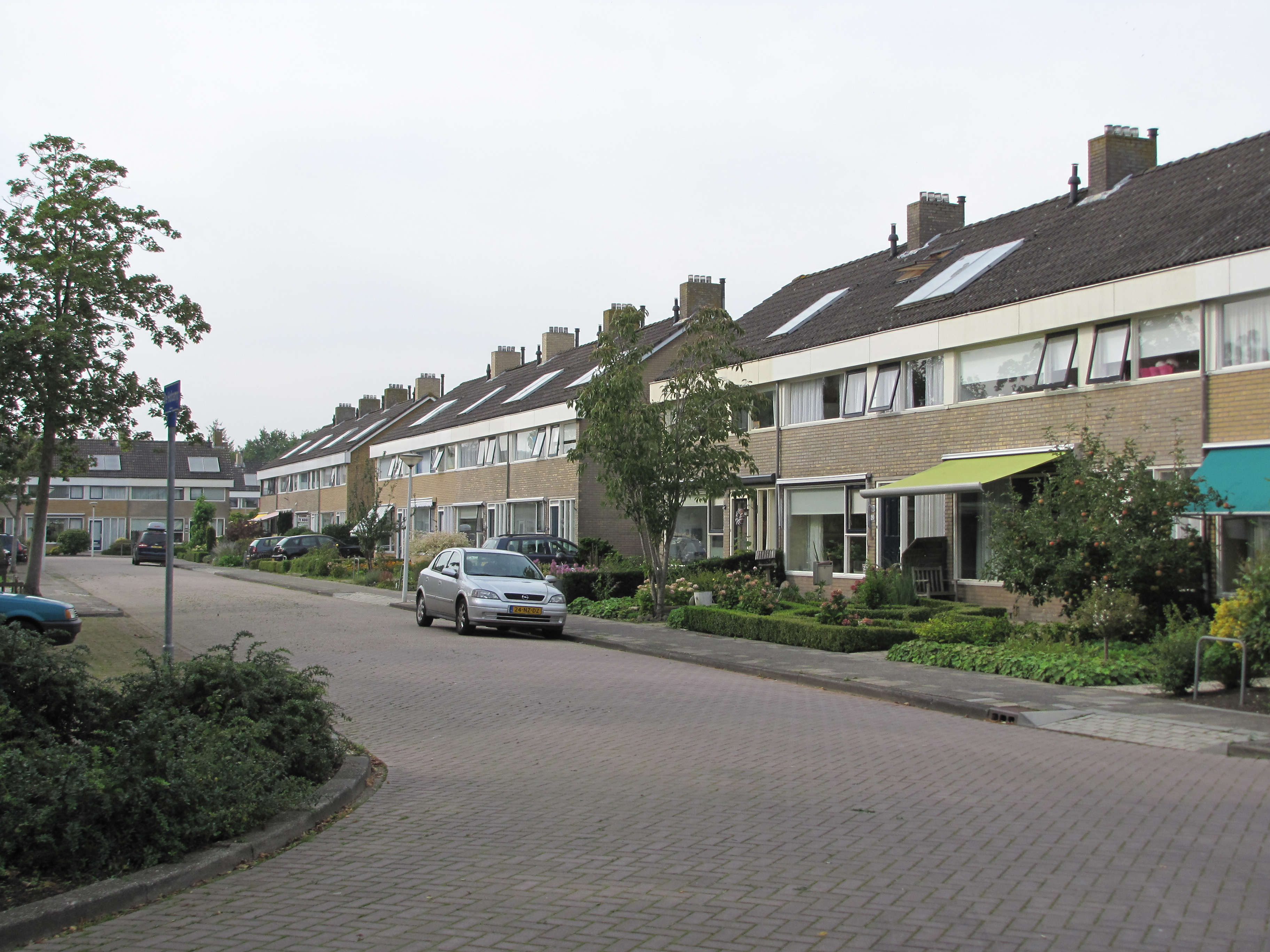 Town of Joure, Westermeer, townhouses in the street of De Hofcamp.